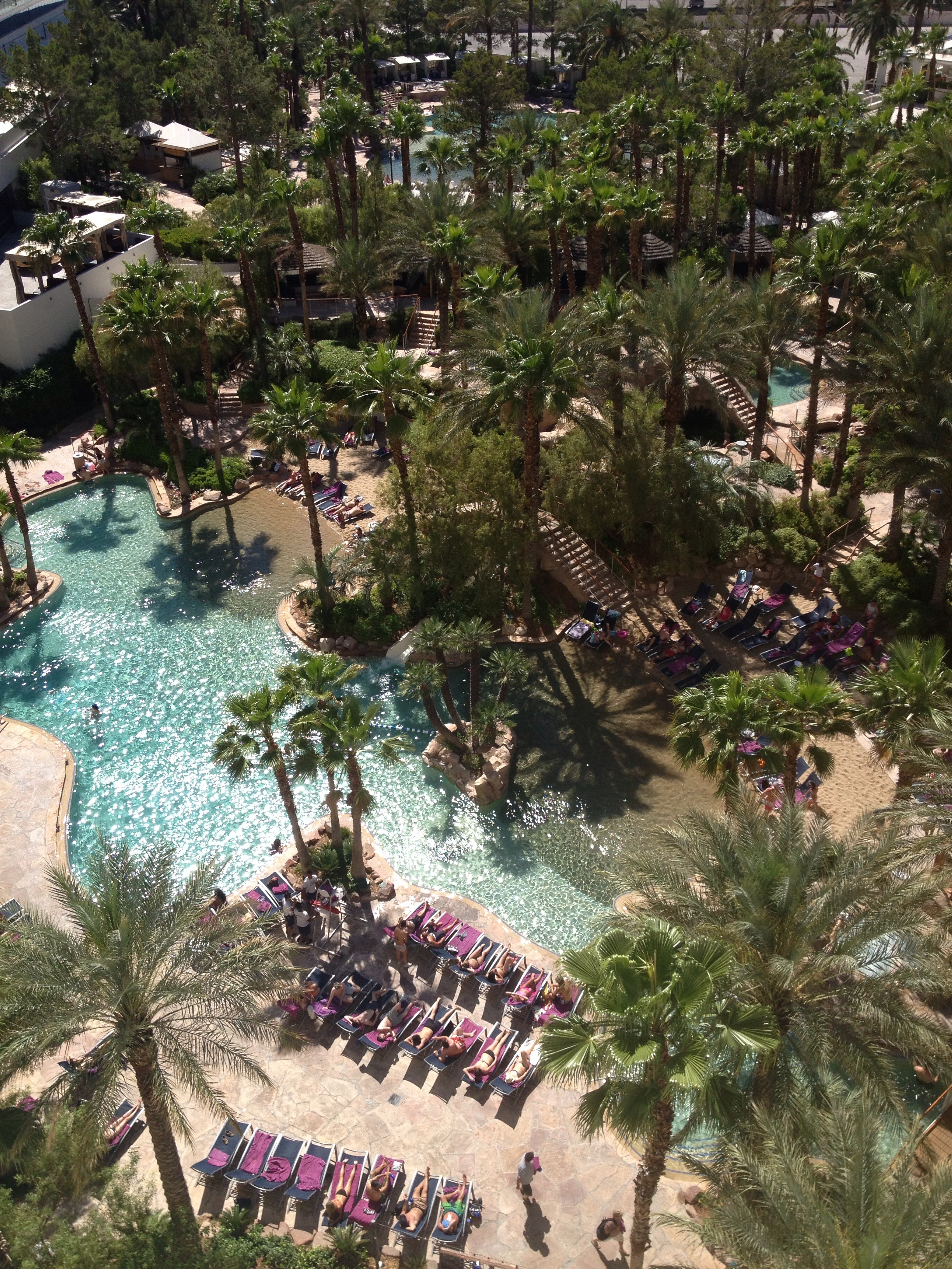 Pool area at the Hard Rock Hotel in Las Vegas, viewed from the hotel's 10th floor.